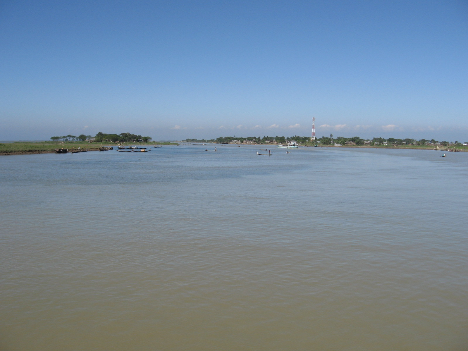 Surma River in the Sachna-Jamalganj area of Sunamganj District in the haor region